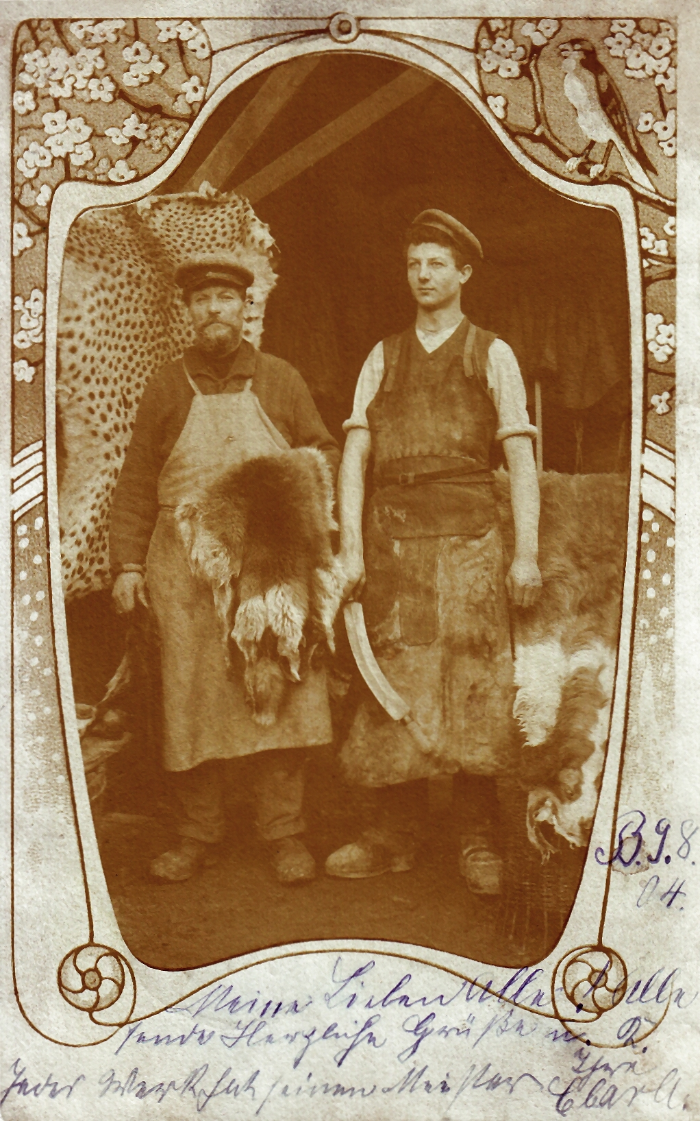 Postcard, 2 fur dressers